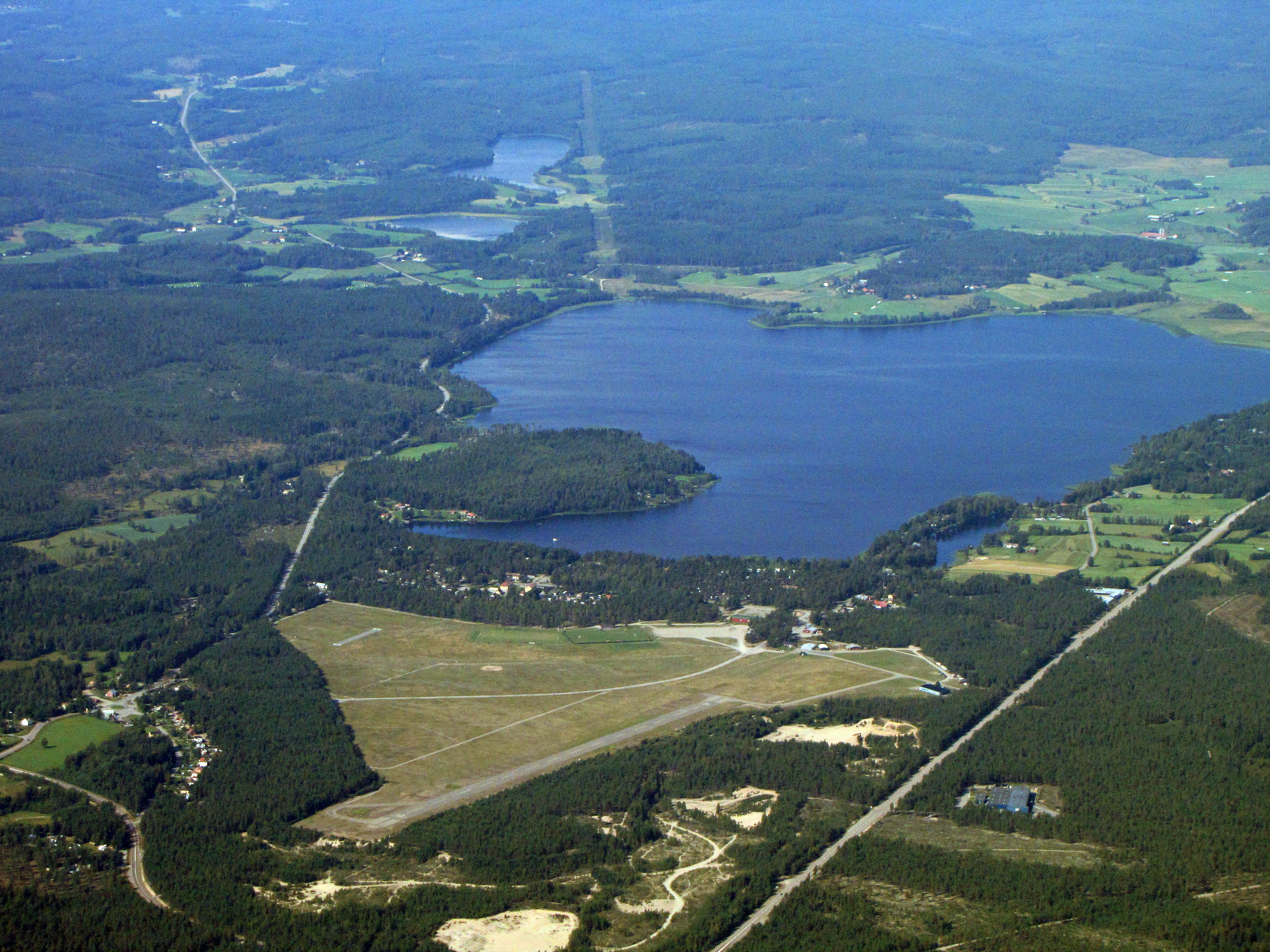 Airfield Mohed and village Mohed around it with lake Florsjön behind. View direction W.